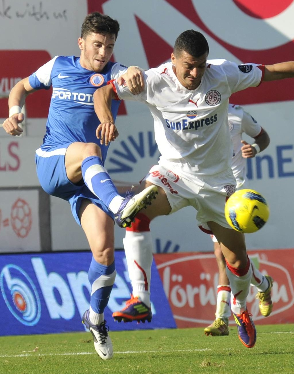 Foto : Koray Geçgel